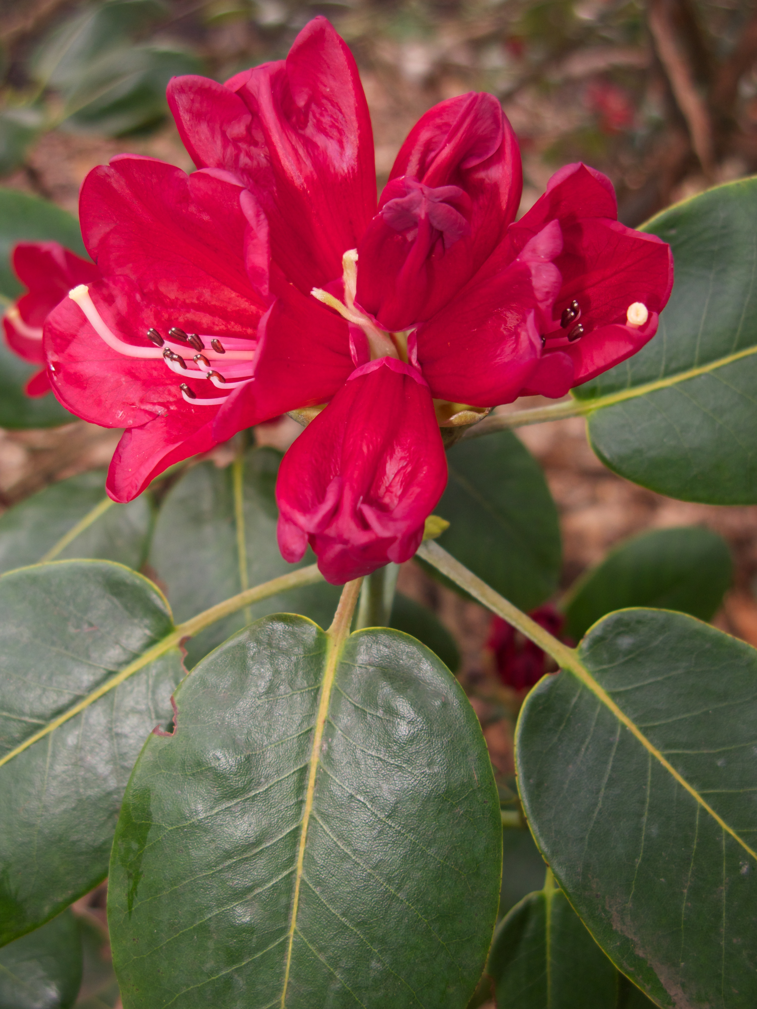 Rhododendron thomsonii ssp thomsonii in cultivation at Royal Botanic Garden Edinburgh Acc. No. 19271006A. Collected from Burma in 1926